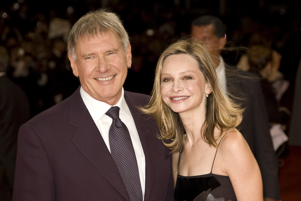 Harrison Ford and Calista FlockhartDeauville 2009